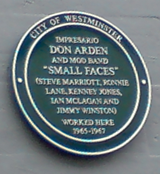 Plaque commemmorating the Small Faces (mod/Rock and roll) band from the 1960s who had performed there.